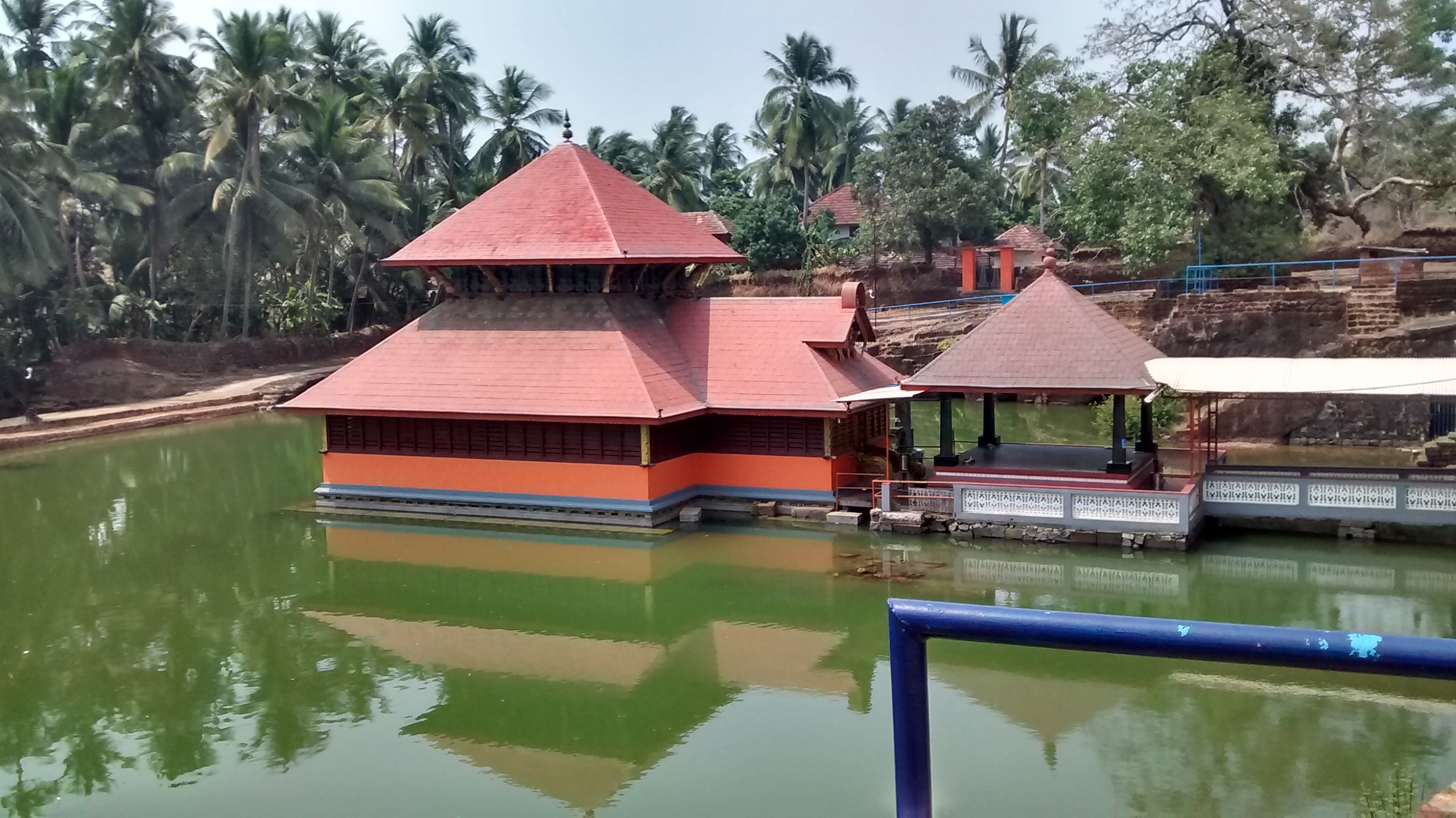 Ananthapuram Lake Temple in Kasargod district, Kerala, India